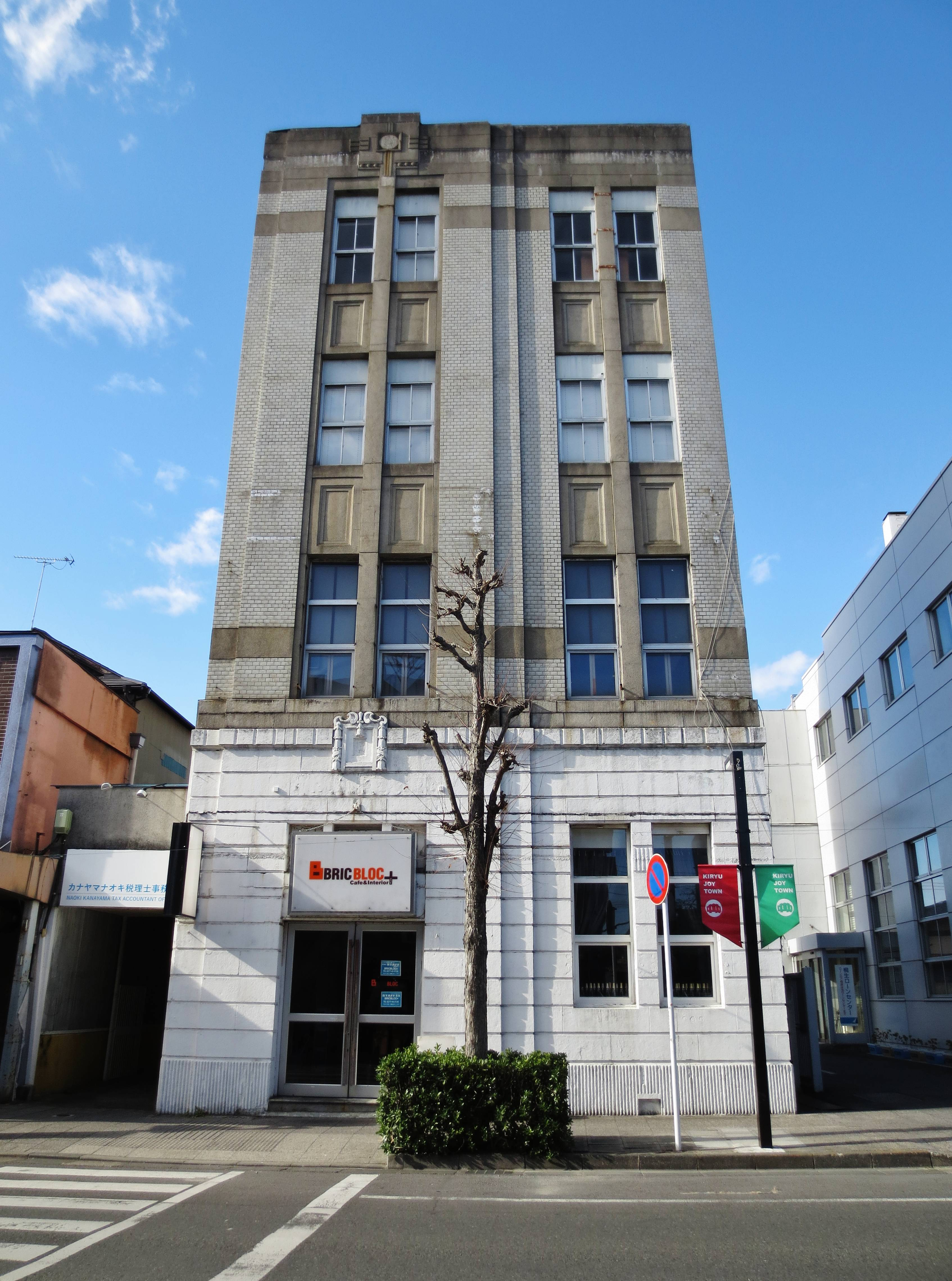 Kanazen Building.